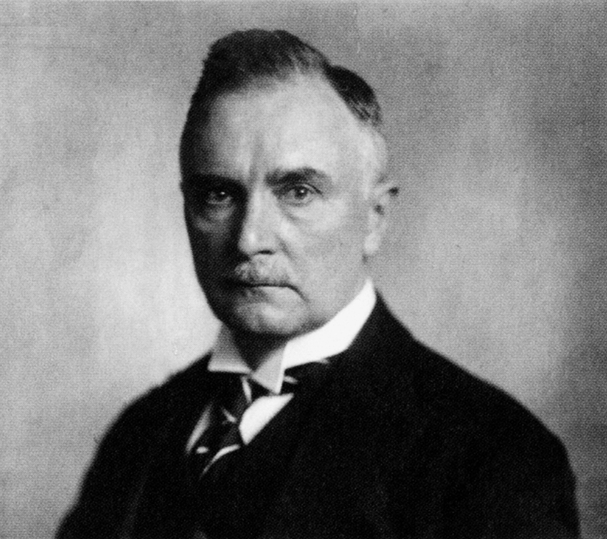 The shipowner Friedrich Adolf Vinnen (1868–1926) from Bremen, Germany.